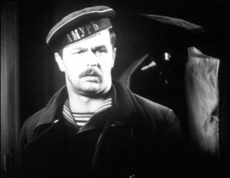 Aleksandr Melnikov as Kupriyanov in Deputat Baltiki (1936)